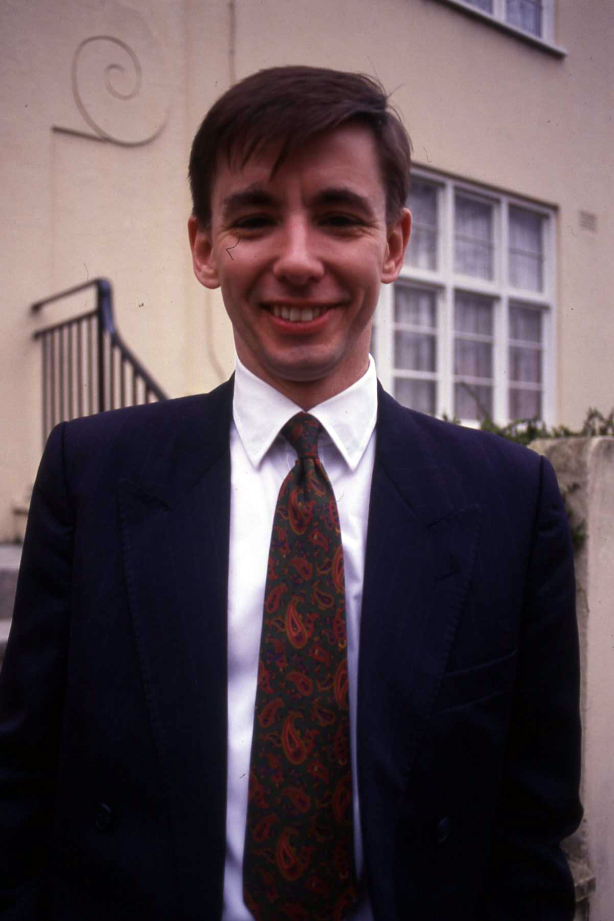 Alan Bray at home in London